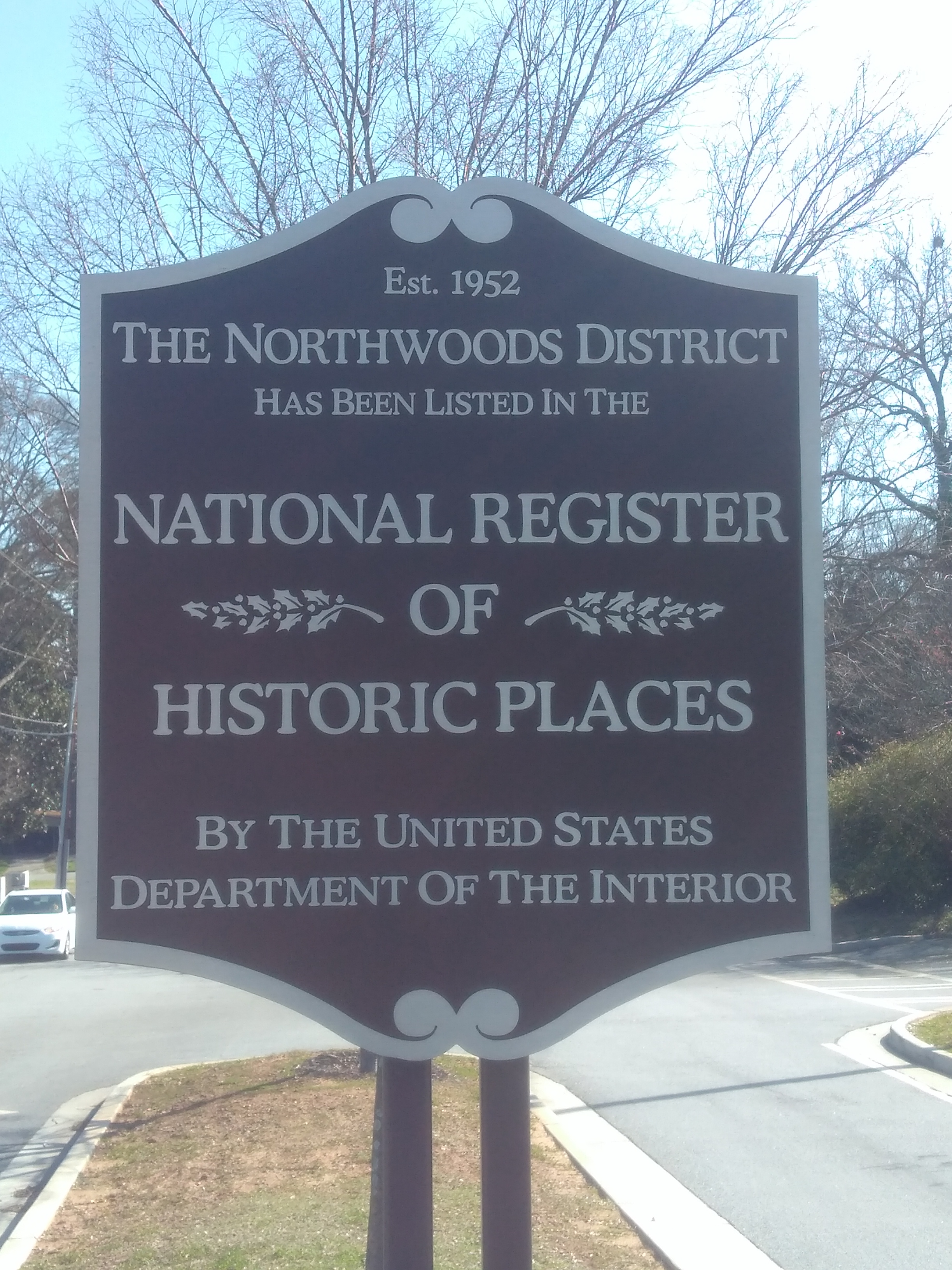 Recognition sign